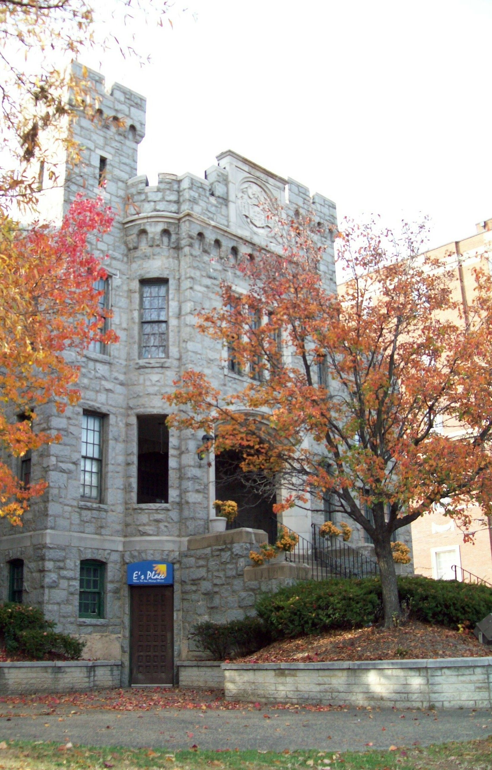 Side View of Hyattsville Armory Nov 08